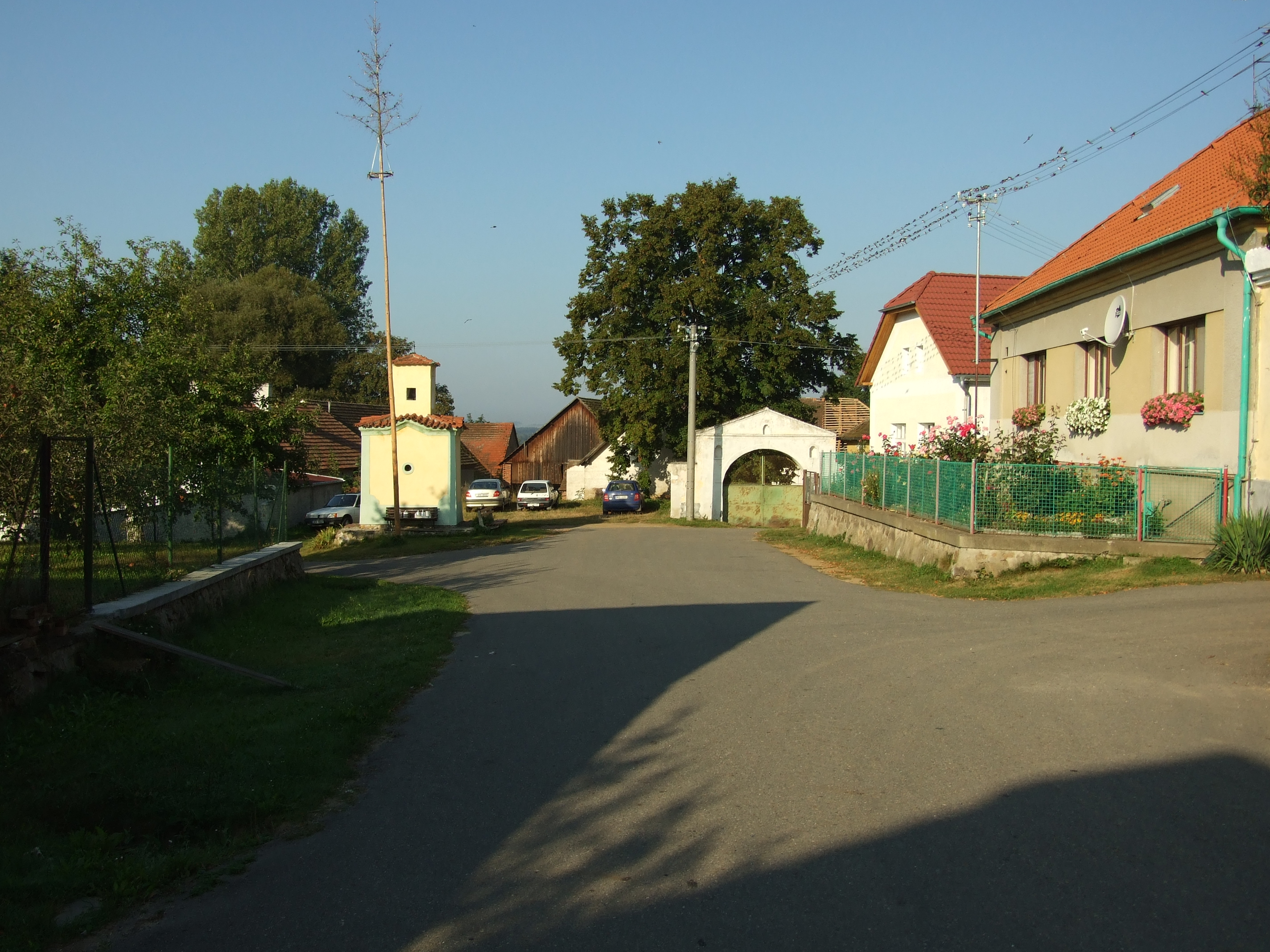 Vojníkov village, South Bohemian Region, CZhelp